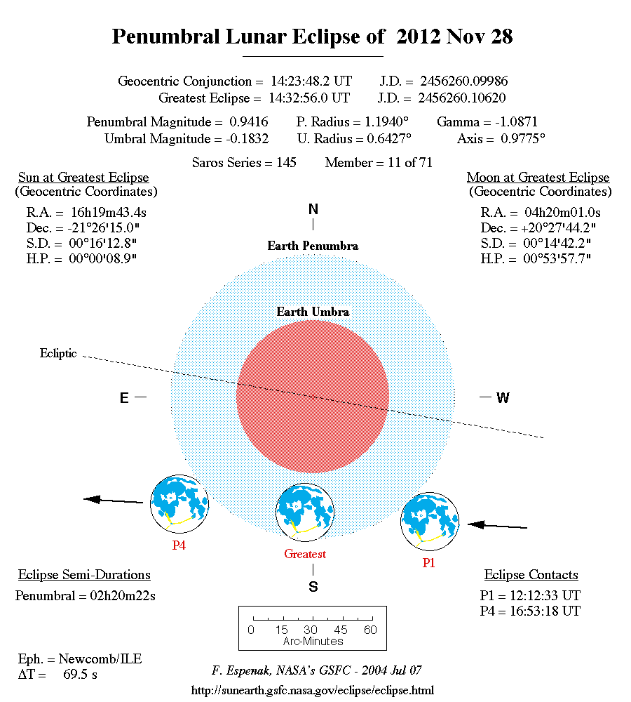 Sketch of the 2012-11-28 lunar eclipse.